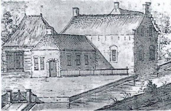 Castle Friesburg in Nijeholtpade (Frisia, the Netherlands)